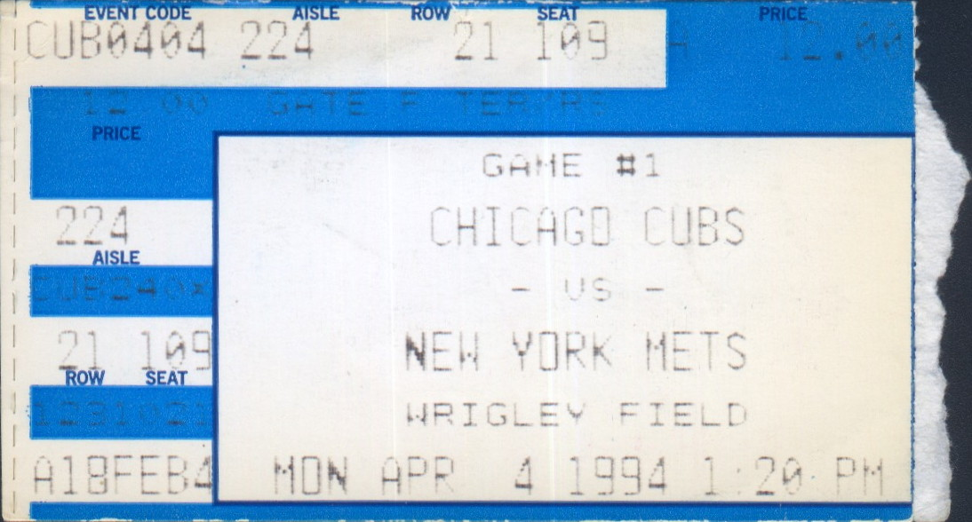 A ticket for a April 4, 1994 Major League Baseball game featuring the New York Mets versus the Chicago Cubs at Wrigley Field.